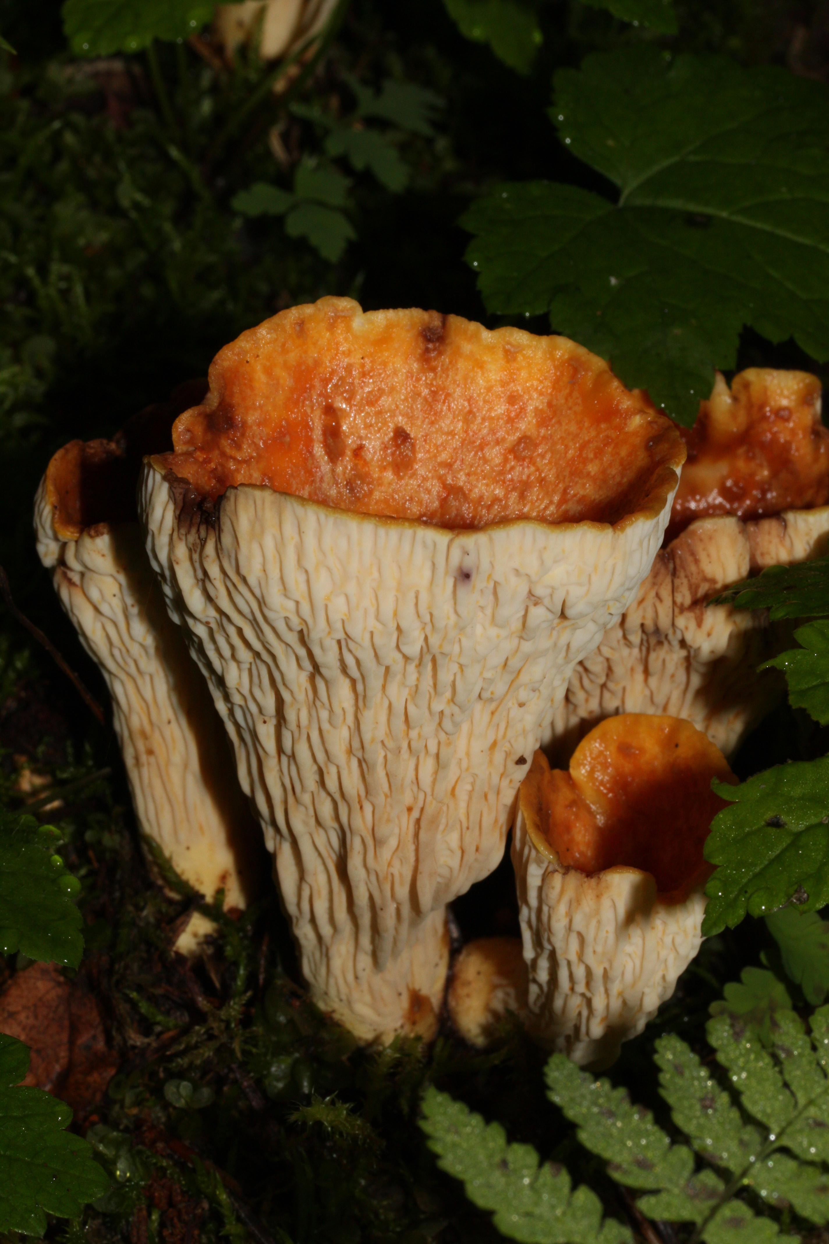 Woolly Chanterelle